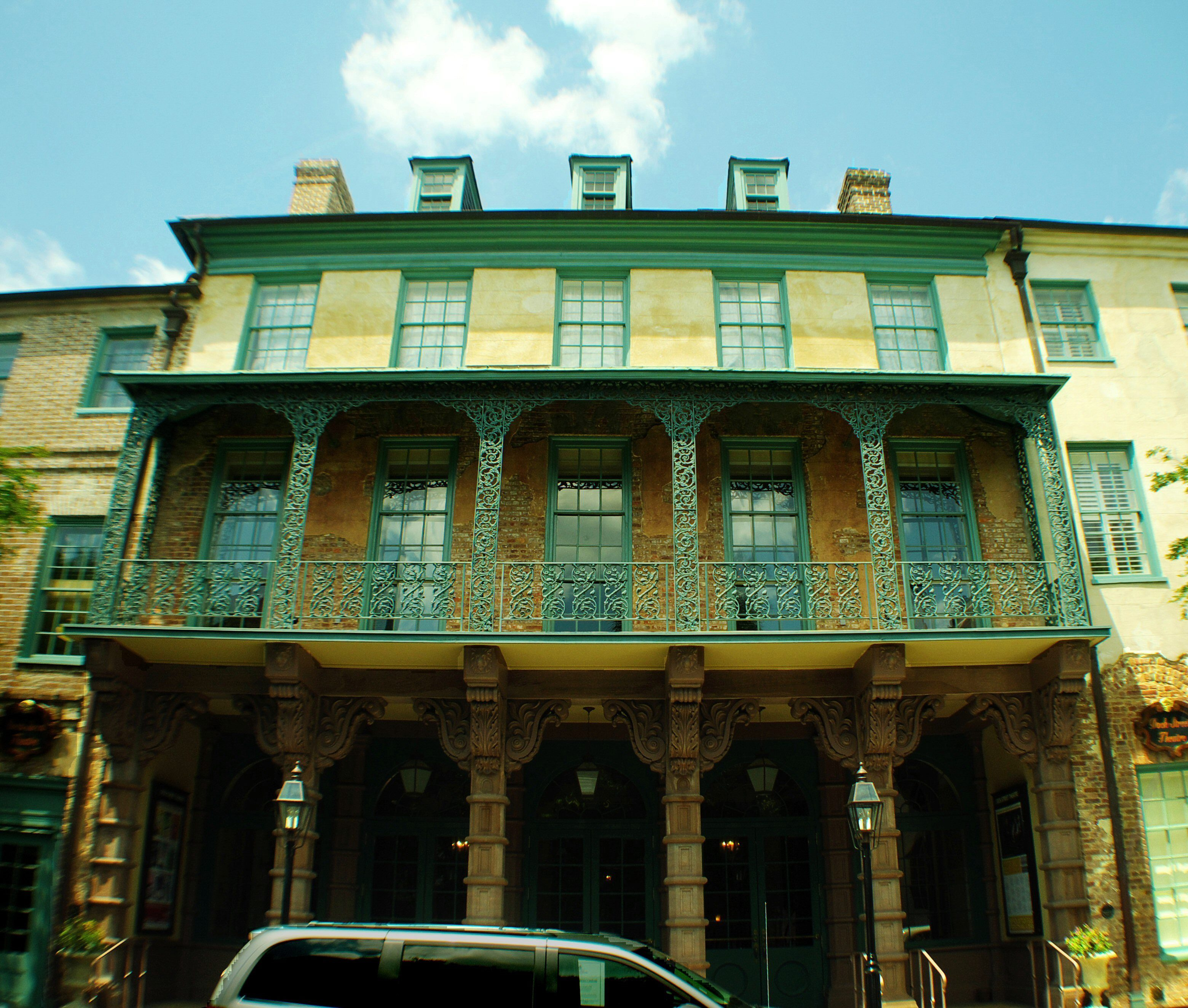 The Dock Street Theatre in Charleston, South Carolina, United States